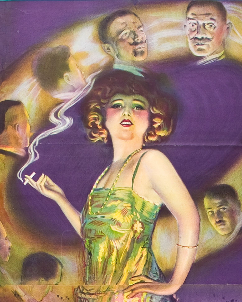 Poster for the American drama film The Blonde Vampire (1922).